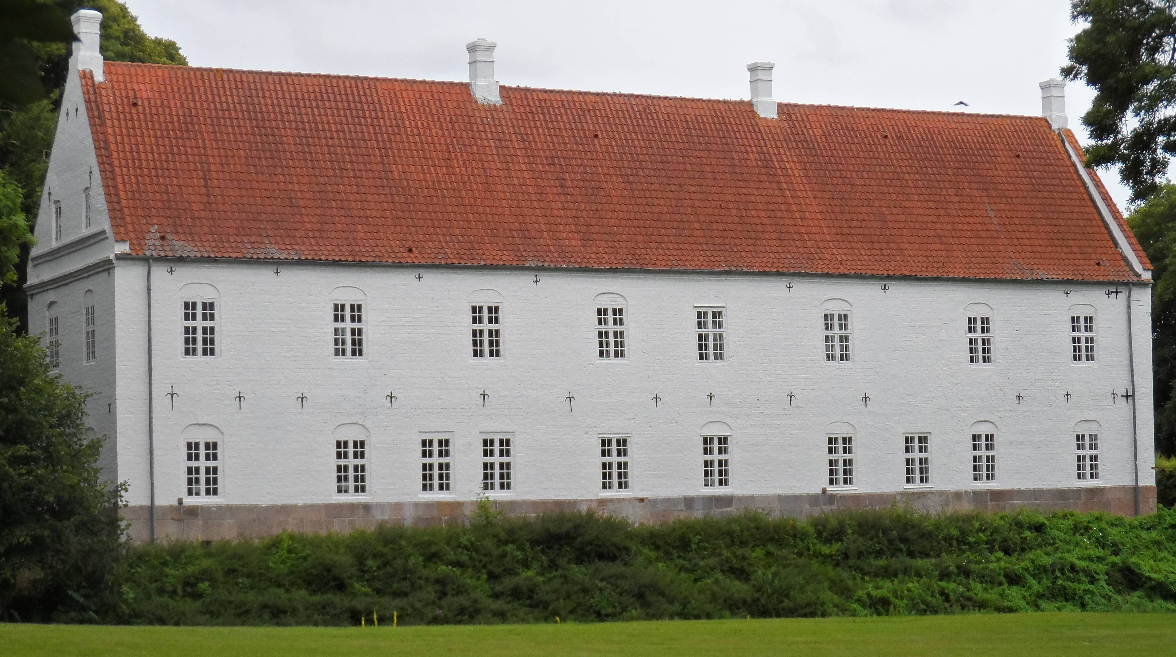 Kongstedlund, manor house, Denmark 2014